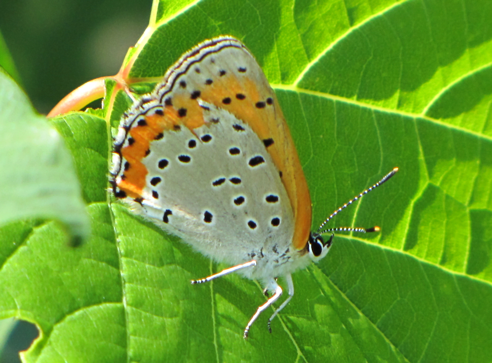 Bronze Copper (Lycaena hyllus), Petrie Island, Ottawa, Ontario, Canada